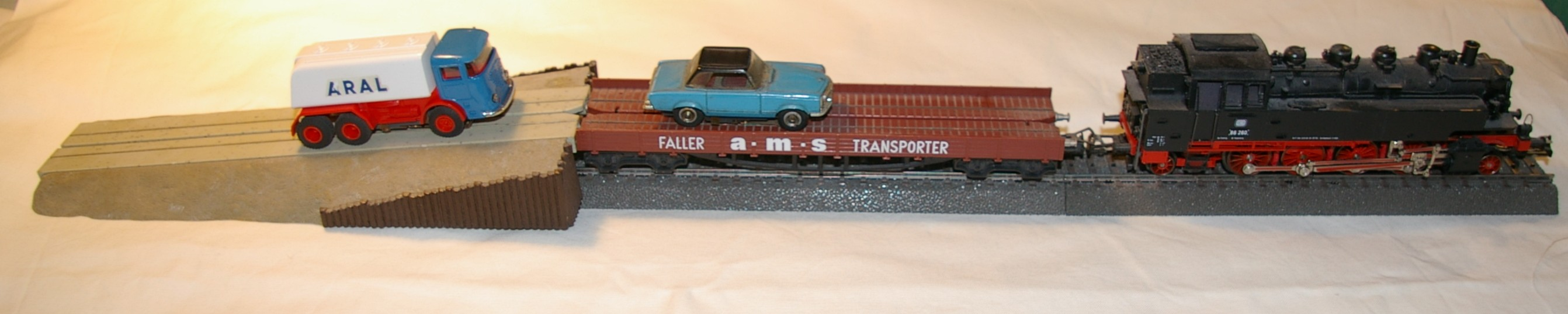 Faller AMS Slotcar. Own items, own photograph taken Oct 31, 2006 Railway transport of cars.